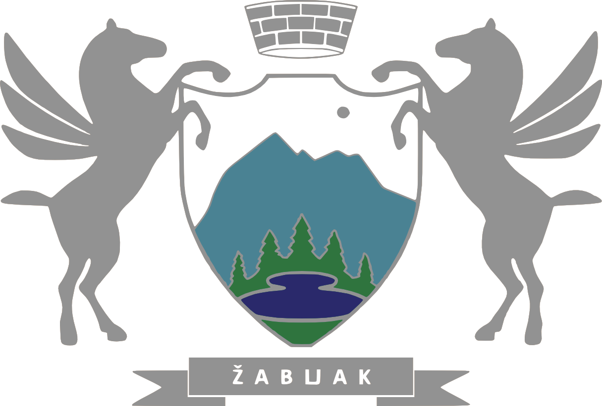 Coat-of-arms-like Amblem of Žabljak